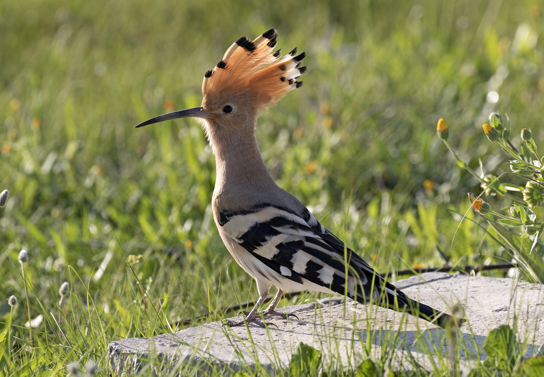 A common hoopoe (Upupa epops). Balcalı, Sarıçam - Adana, Turkey.